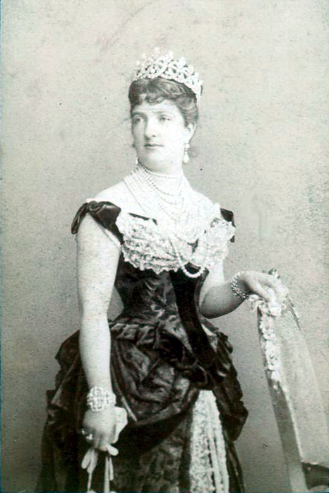 Luigi Montabone (18..-1877) - Margherita of Savoy (1851-1926), as queen of Italy (1878 or later).